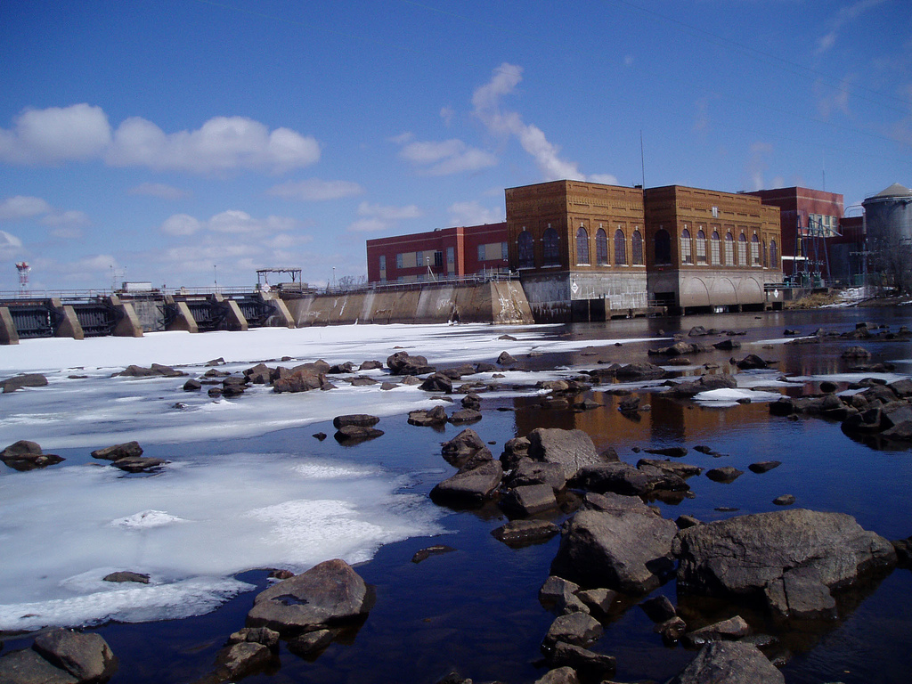 Dam! Standing in the Wisconsin River below Clark St. in Stevens Point. (Stevens Point, Wisconsin, USA)